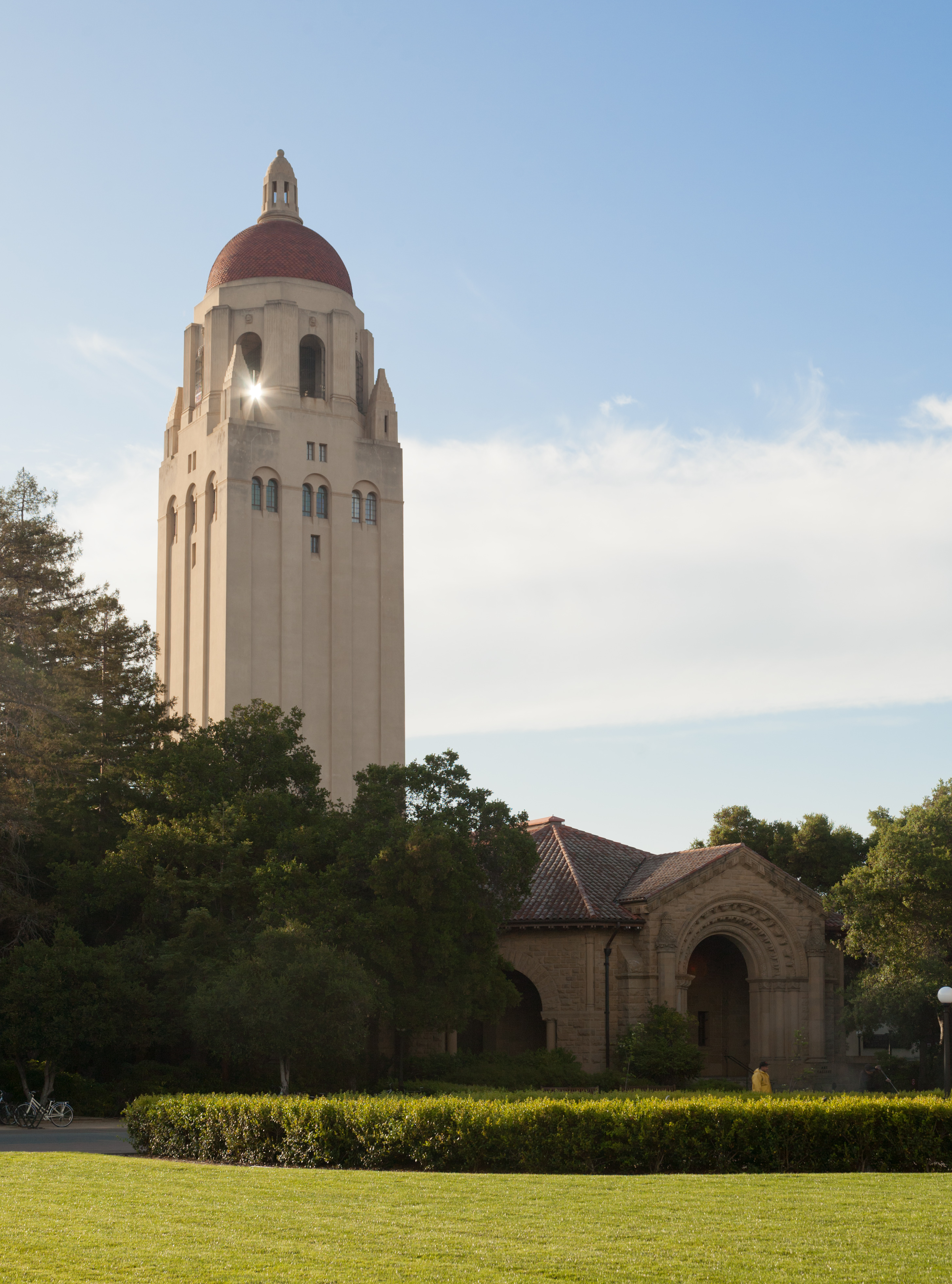 Hoover Tower, Stanford University, Stanford, California.